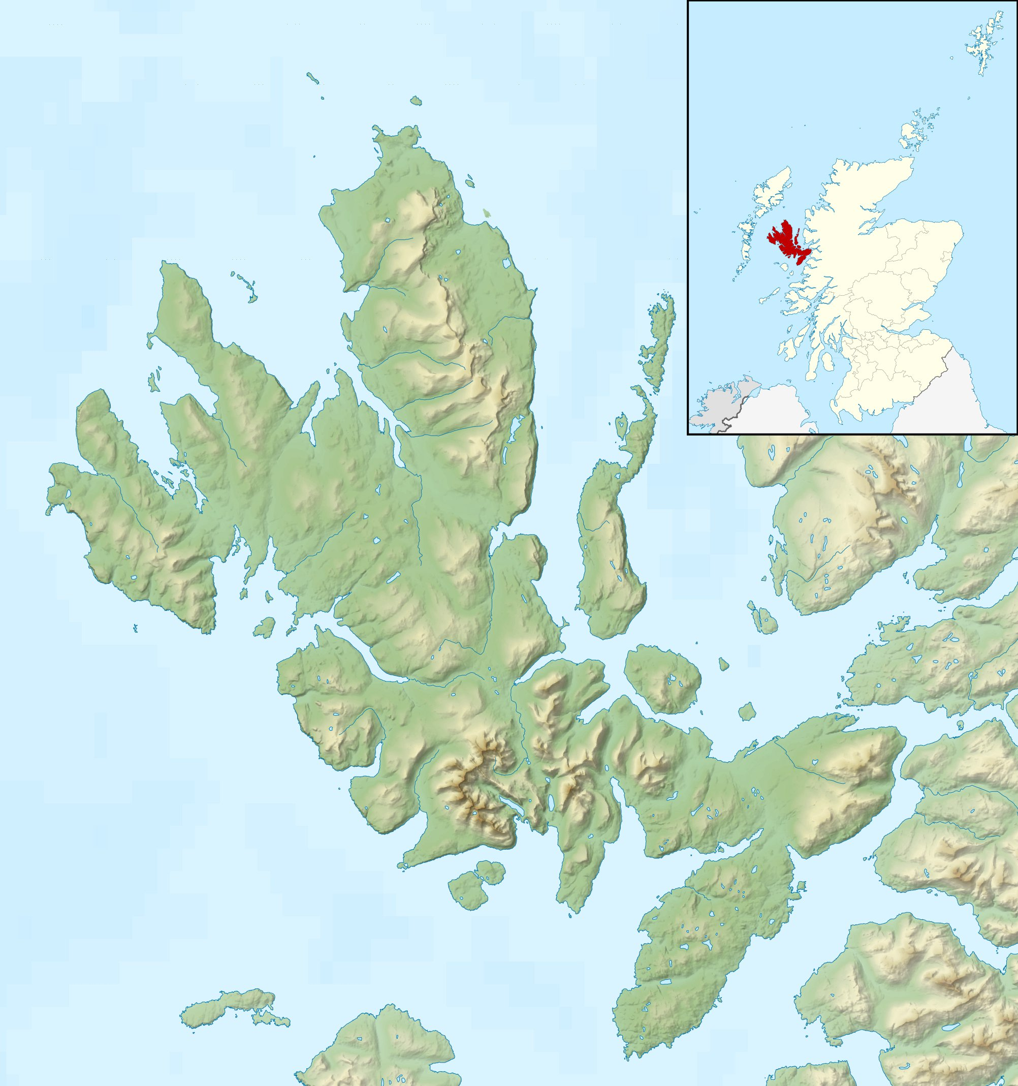 Relief map of the Isle of Skye, UK. Equirectangular map projection on WGS 84 datum, with N/S stretched 180% Geographic limits: West: 6.85W East: 5.5W North: 57.8N South: 57.0N